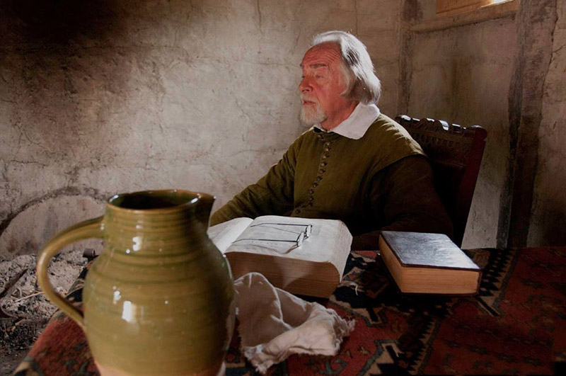 An actor at Plymouth Plantation portraying Elder William Brewster